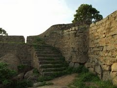 One of the Bastions inside the fort